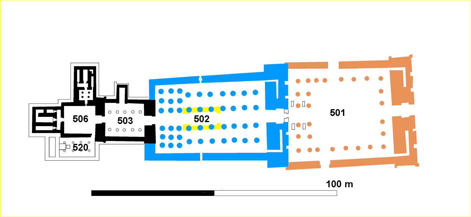 the Amun tempel at the Gebel Barkal (plan) Nubia